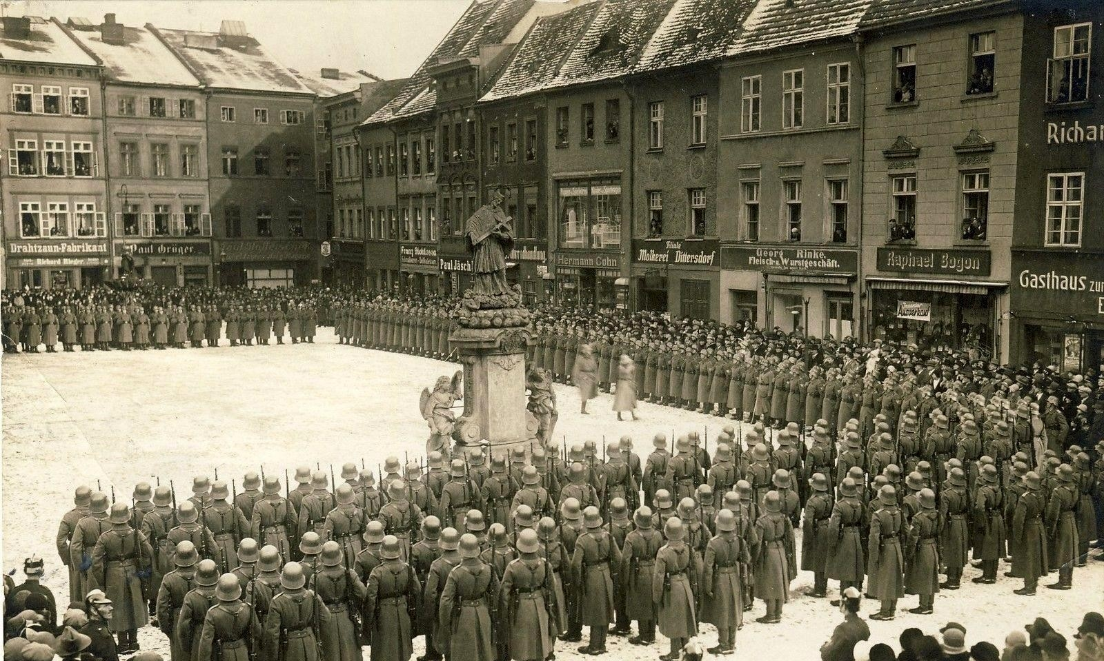 German soldiers in Prudnik (Neustadt)